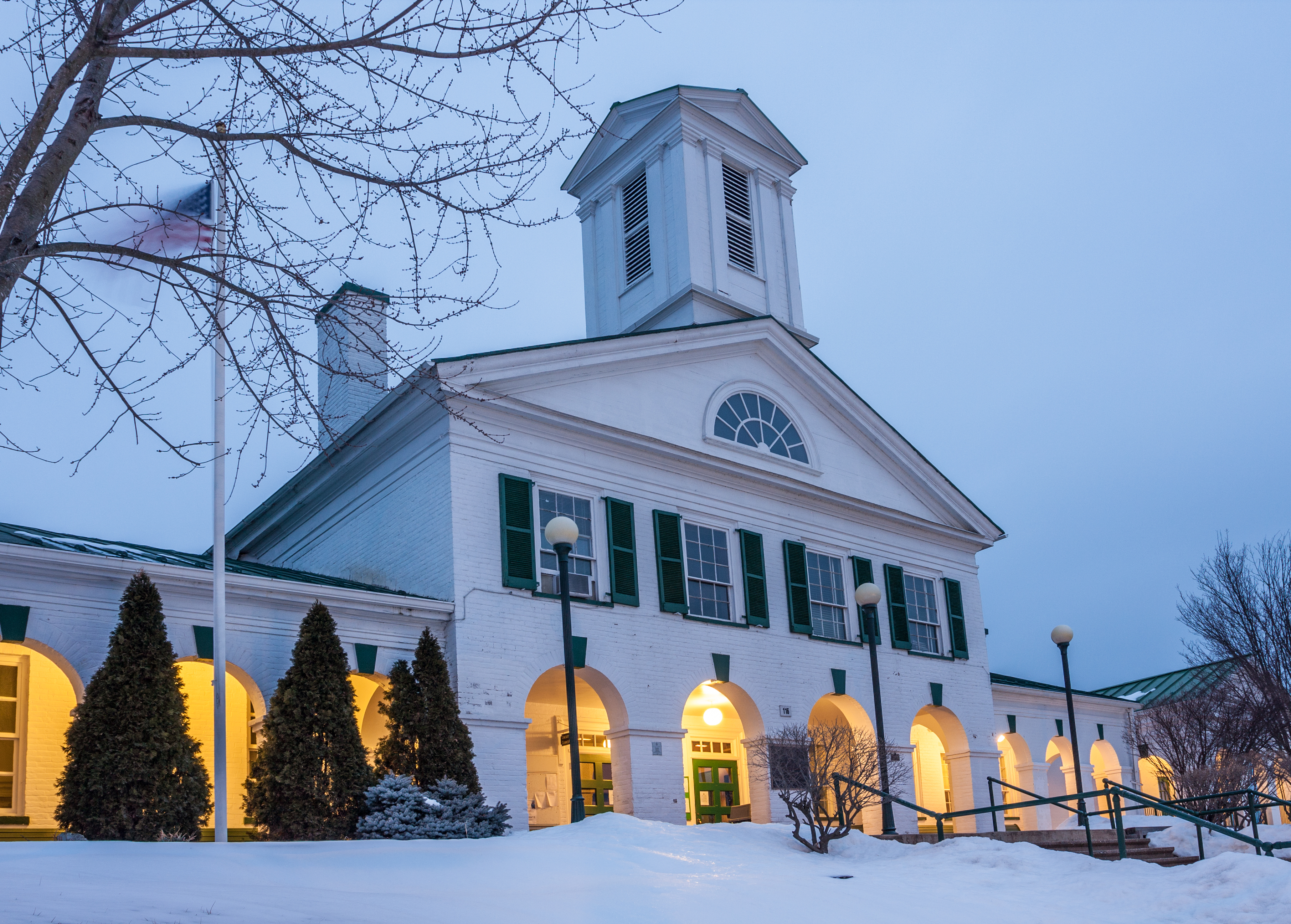 Page County Courthouse at Night, Luray, VA